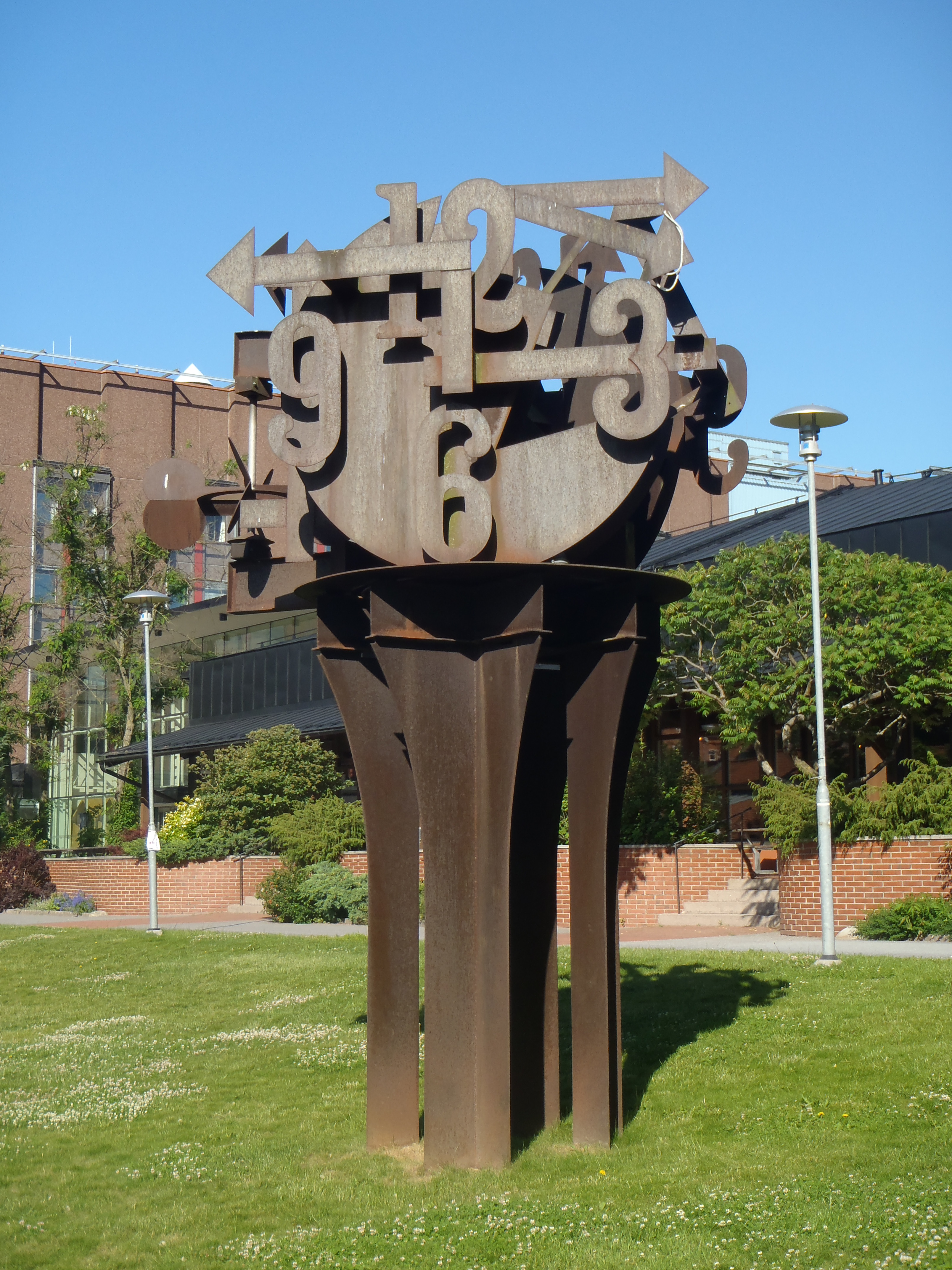 "Broken clock" Per-Olof Ultvedt